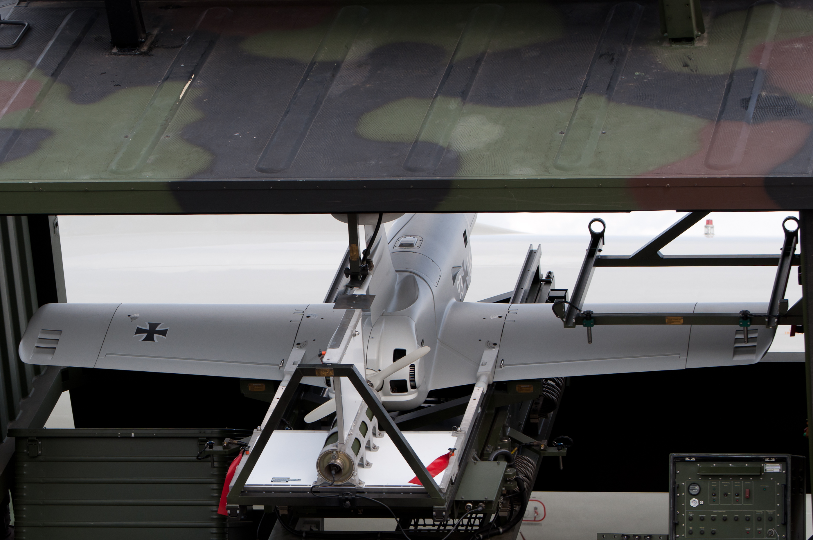 Rheinmetall KZO at ILA Berlin Air Show 2012.